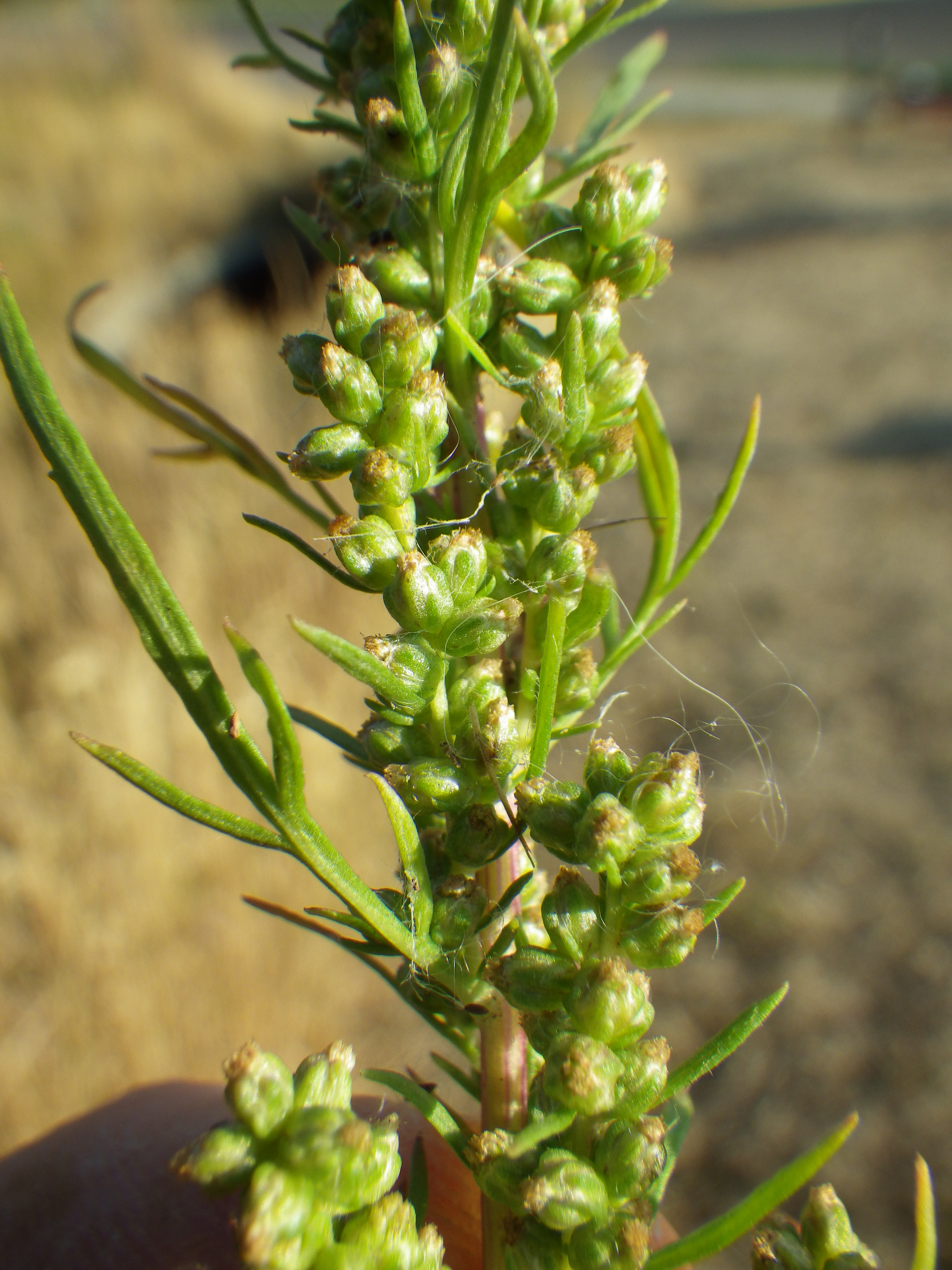 An occasional annual to biennial Artemisia common to disturbed and riparian settings in Montana. The leaves are green, glabrous, and deeply divided and the leaf segements have sharp serrations including at the tip.